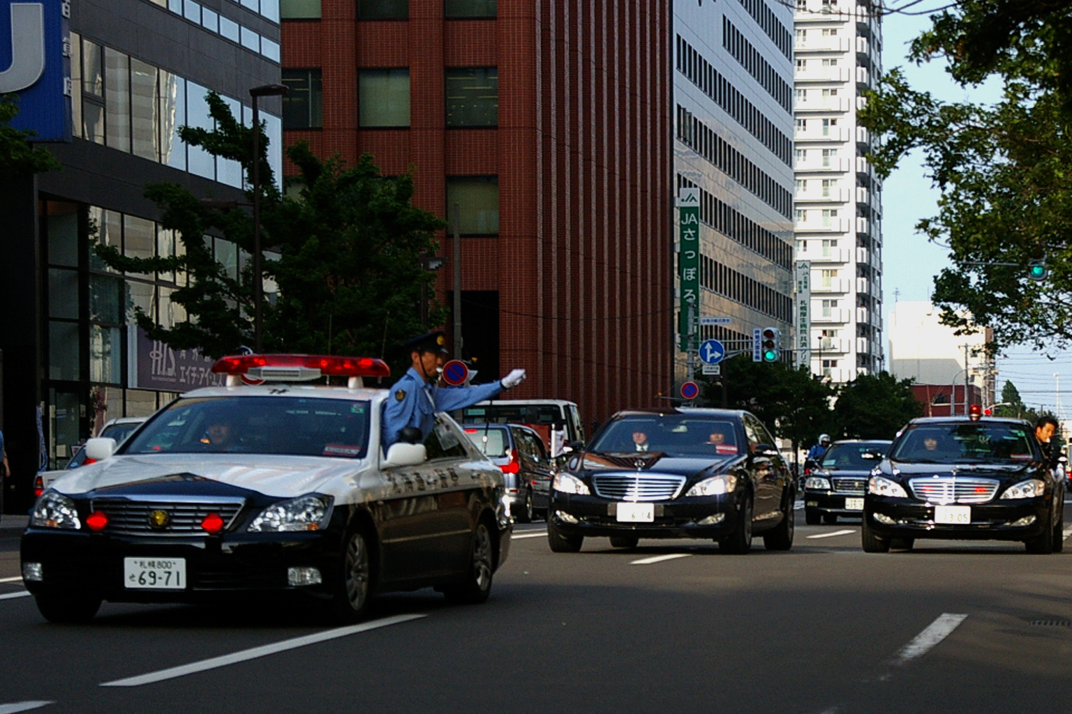 Japanese police VIP protection, G-8 Hokkaido Touyako summit.